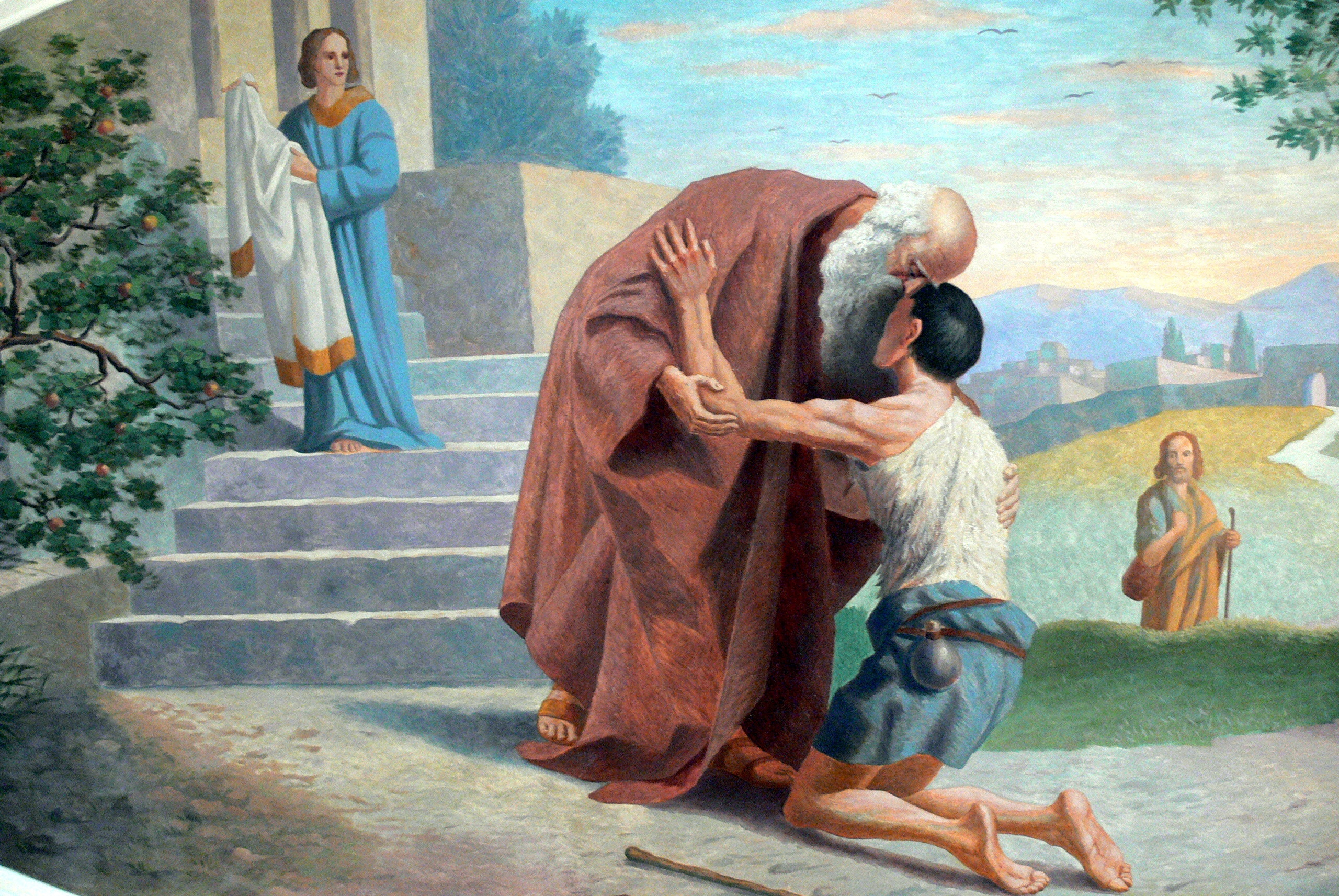 Bezau ( Vorarlberg ). Saint Jodok parish church: Fresco ( 1925 ) showing saint Judoc by Ludwig Glötzle.